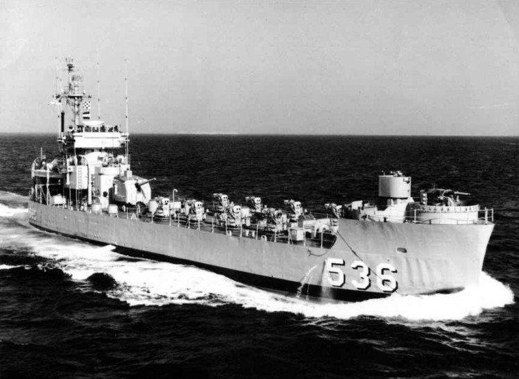 The U.S. Navy inshore fire support ship USS White River (LSMR-536) underway at sea, circa in the 1960s.